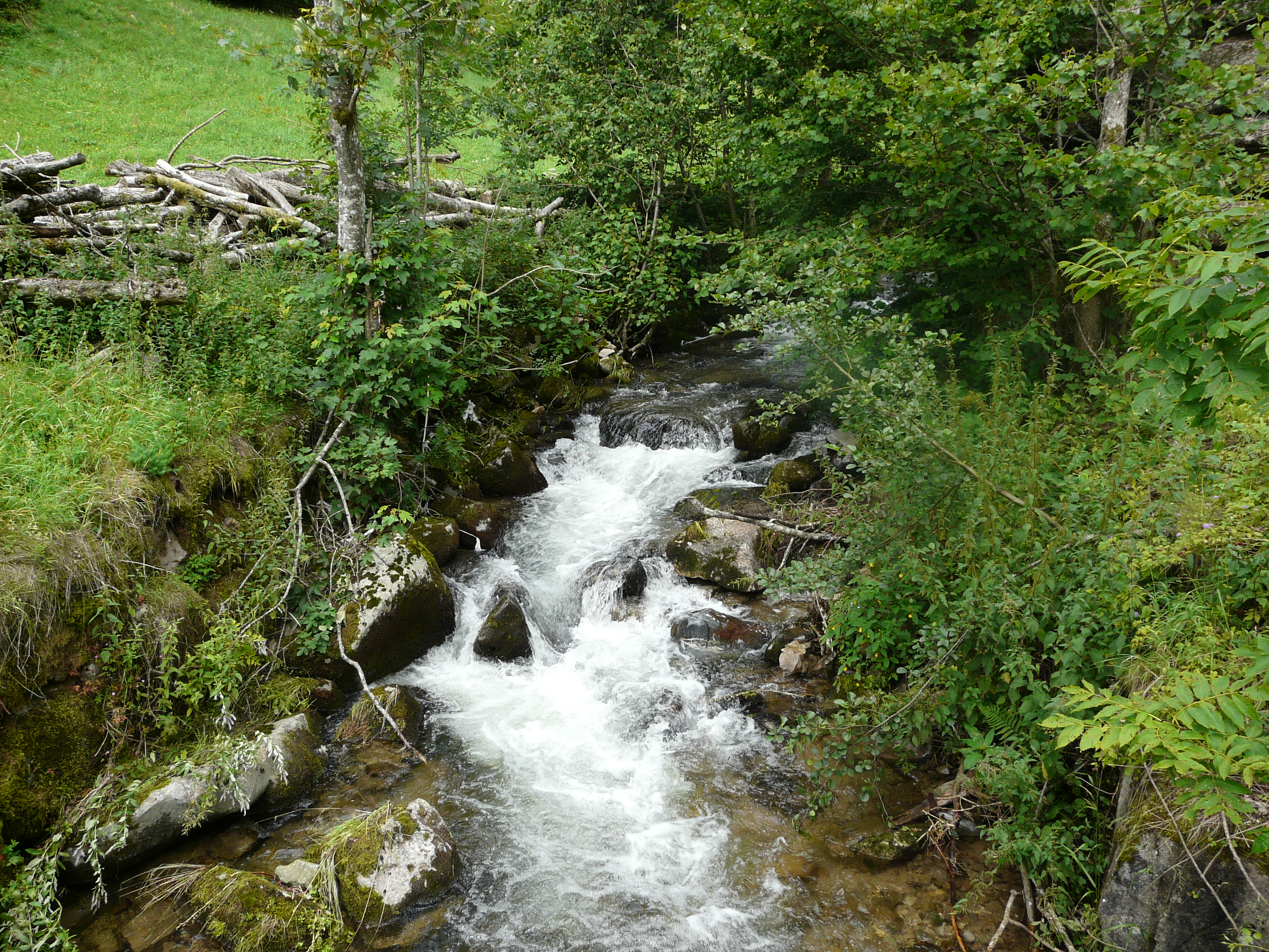 Angenbach above Rohmatt